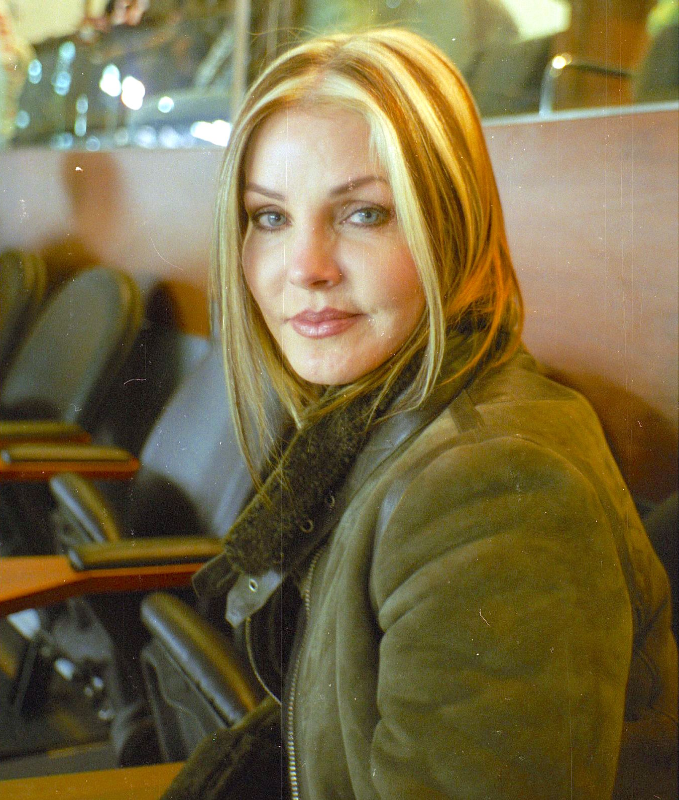 Photo of Priscilla Presley at Chicago's Soldier Field.